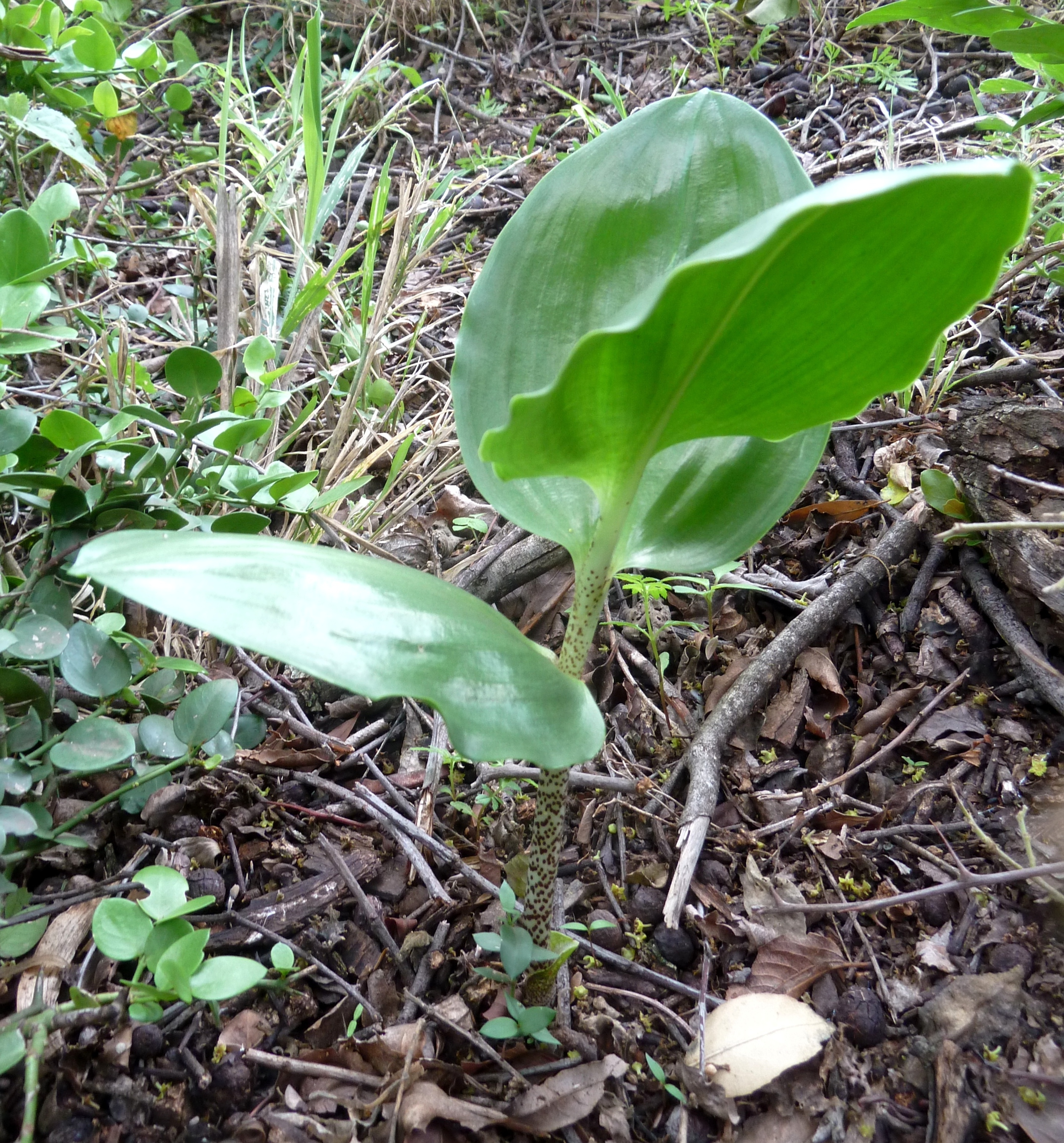 A young Paintbrush lily at Roodeplaat Nature Reserve near Pretoria